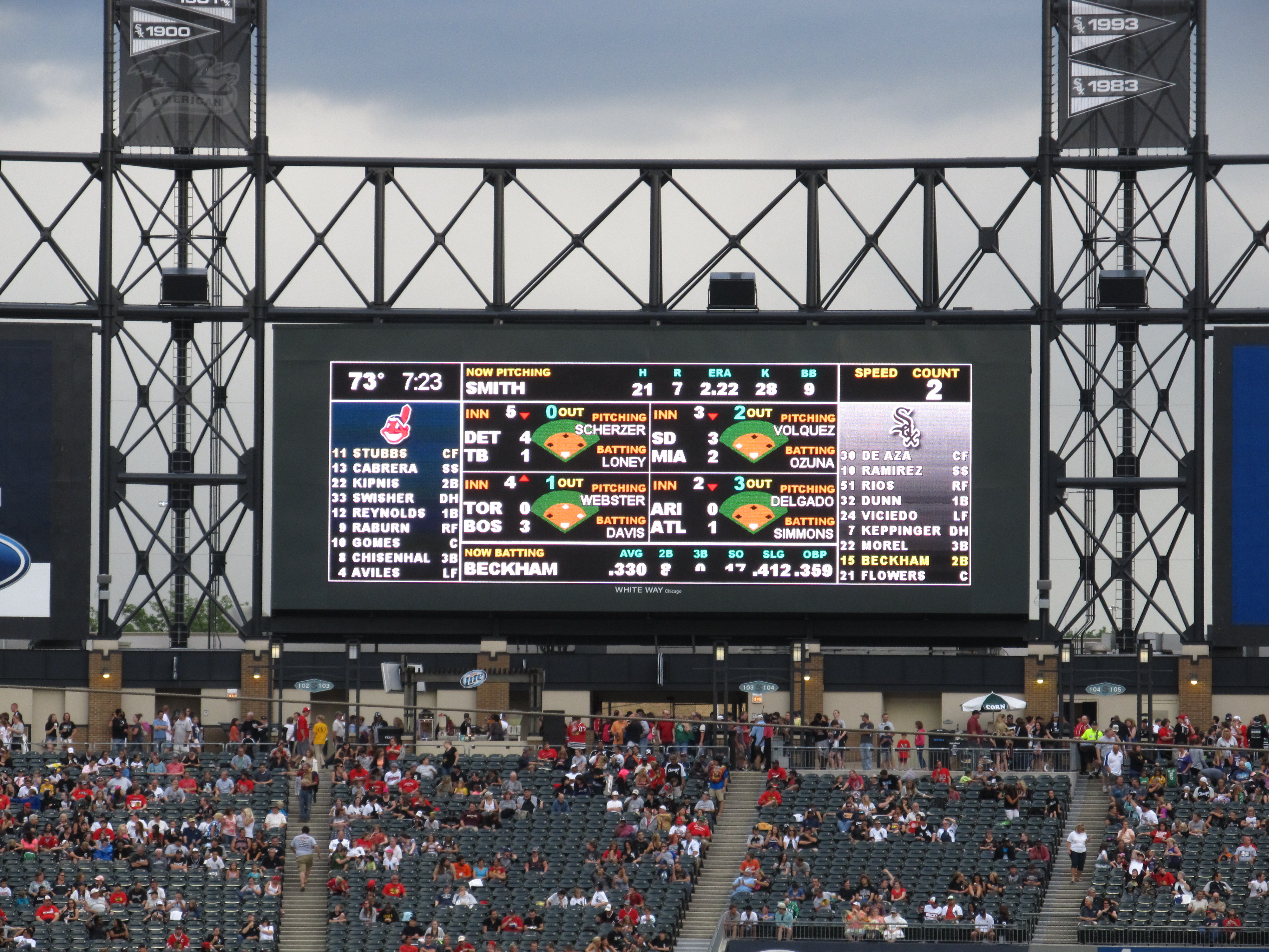 Cleveland Indians v. Chicago White Sox U.S. Cellular Field (formerly Comiskey Park) is a baseball park in Chicago, Illinois. It is the home of the Chicago White Sox of Major League Baseball's American League. The park is owned by the Illinois Sports Facilities Authority, but operated by the White Sox. The park opened for the 1991 season, after the White Sox had spent 81 years at the original Comiskey Park. The new park, completed at a cost of US$167 million, also opened with the Comiskey Park name, but became U.S. Cellular Field in 2003 after U.S. Cellular bought the naming rights at $68 million over 20 years. It hosted the MLB All-Star Game that same year. Many sportscasters and fans continue to use the name Comiskey Park. Prior to its demolition, the old Comiskey Park was the oldest in-use ballpark in Major League Baseball, a title now held by Fenway Park in Boston. The stadium is situated just to the west of the Dan Ryan Expressway in Chicago's Armour Square neighborhood. It was built directly across 35th Street from old Comiskey Park, which was demolished to make room for a parking lot that serves the venue. Old Comiskey's home plate is a marble plaque on the sidewalk next to U.S. Cellular Field and the foul lines are painted in the parking lot. Also, the spectator ramp across 35th Street is designed in such a way (partly curved, partly straight but angling east-northeast) that it echoes the contour of the old first-base grandstand.